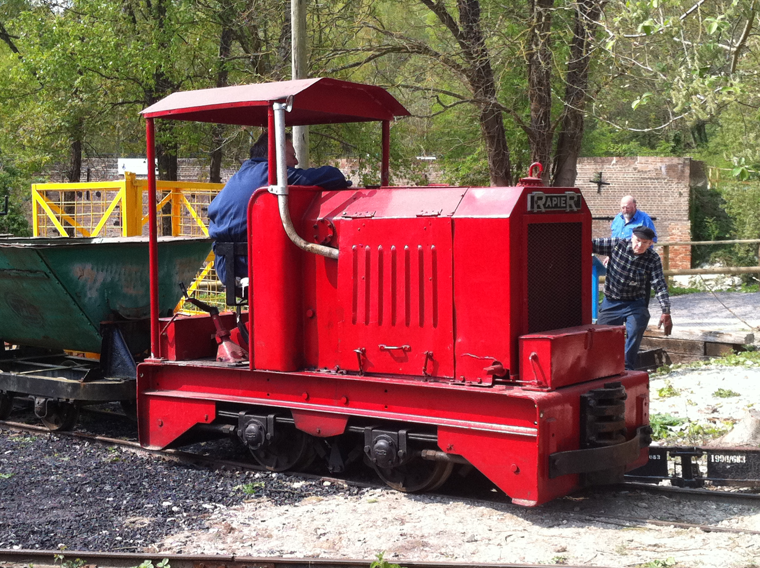 Ransomes Rapier 2' Gauge narrow gauge diesel loco RR80 at Amberley Museum, Sussex.